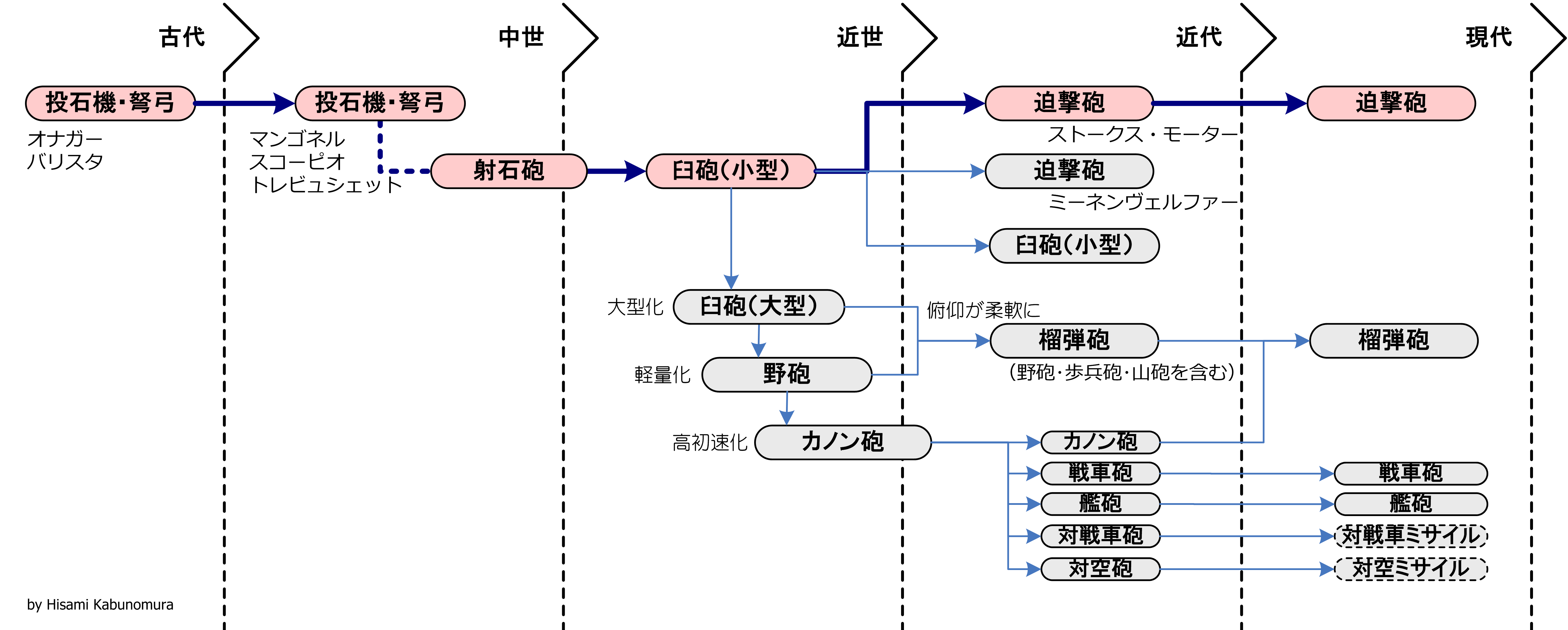 change of cannon